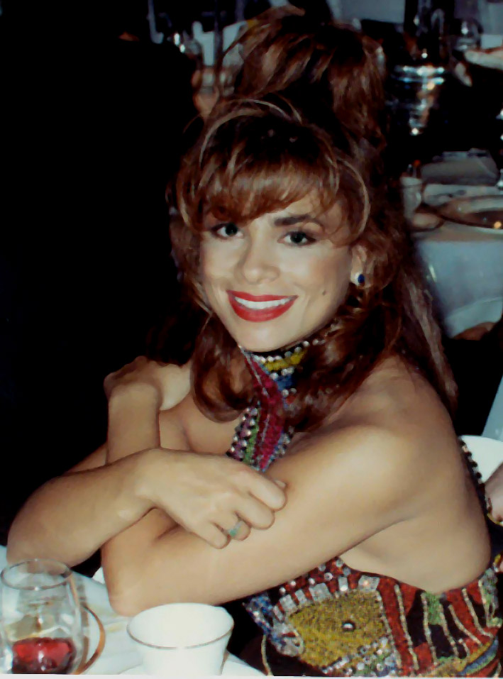 Photo of Paula Abdul at the Emmy Awards